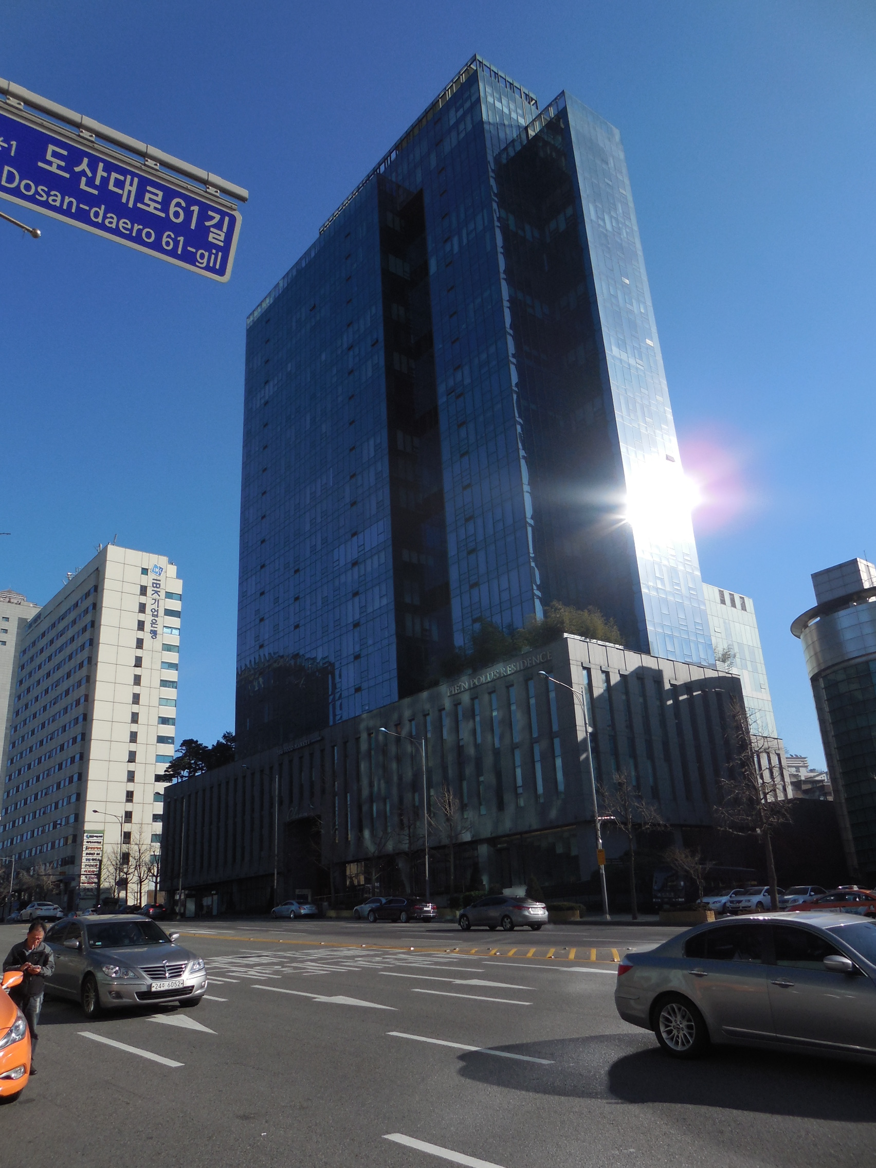 Pie'n Polus, Building of Chaum Clinic